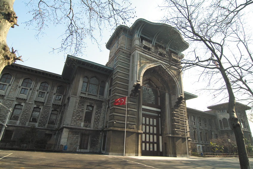 by Tansel Atasagun (IEL 87)